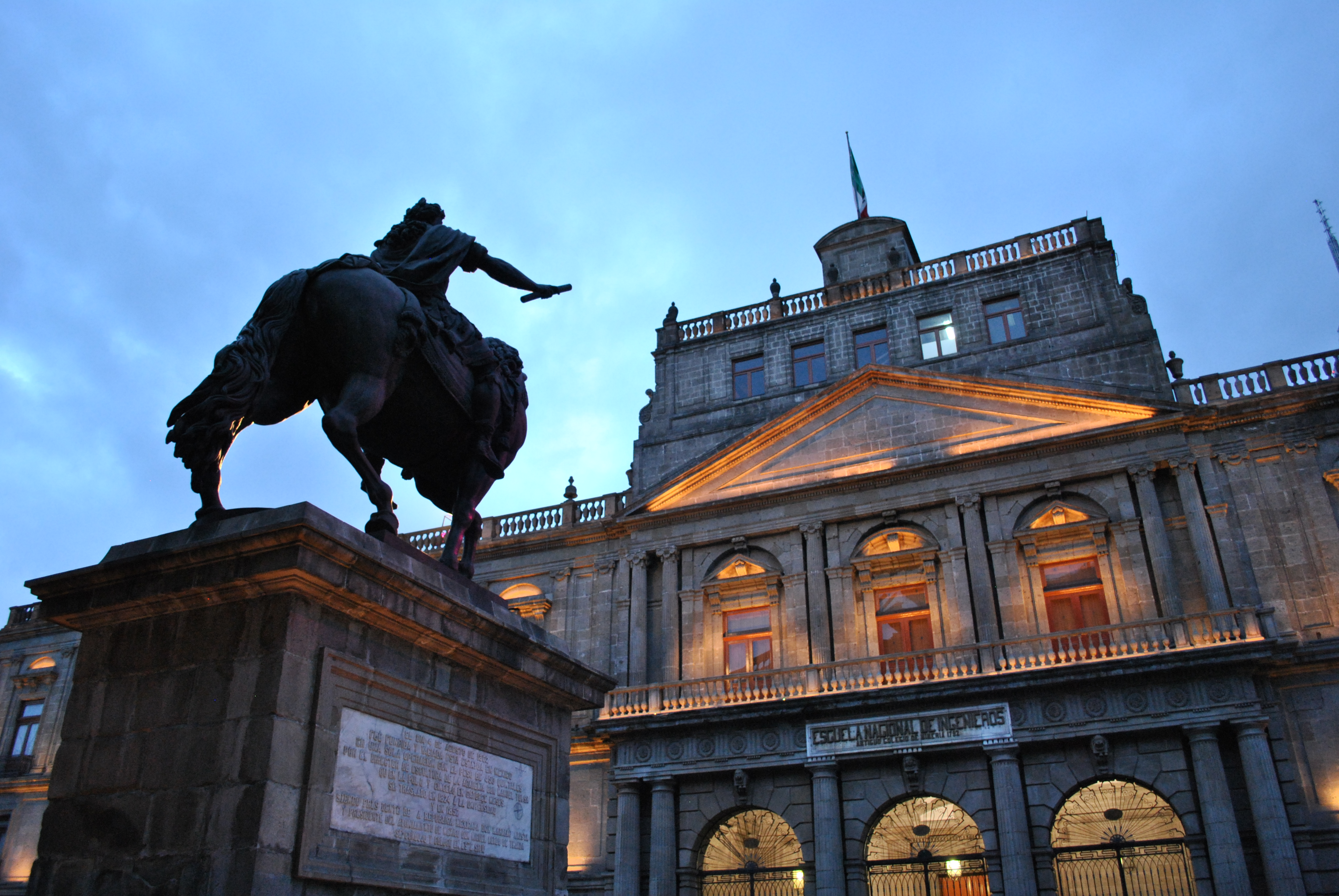 Equestrian statue of Charles IV and behind the Mining Palace, both works of Manuel Tolsa. Historic Center of Mexico City.